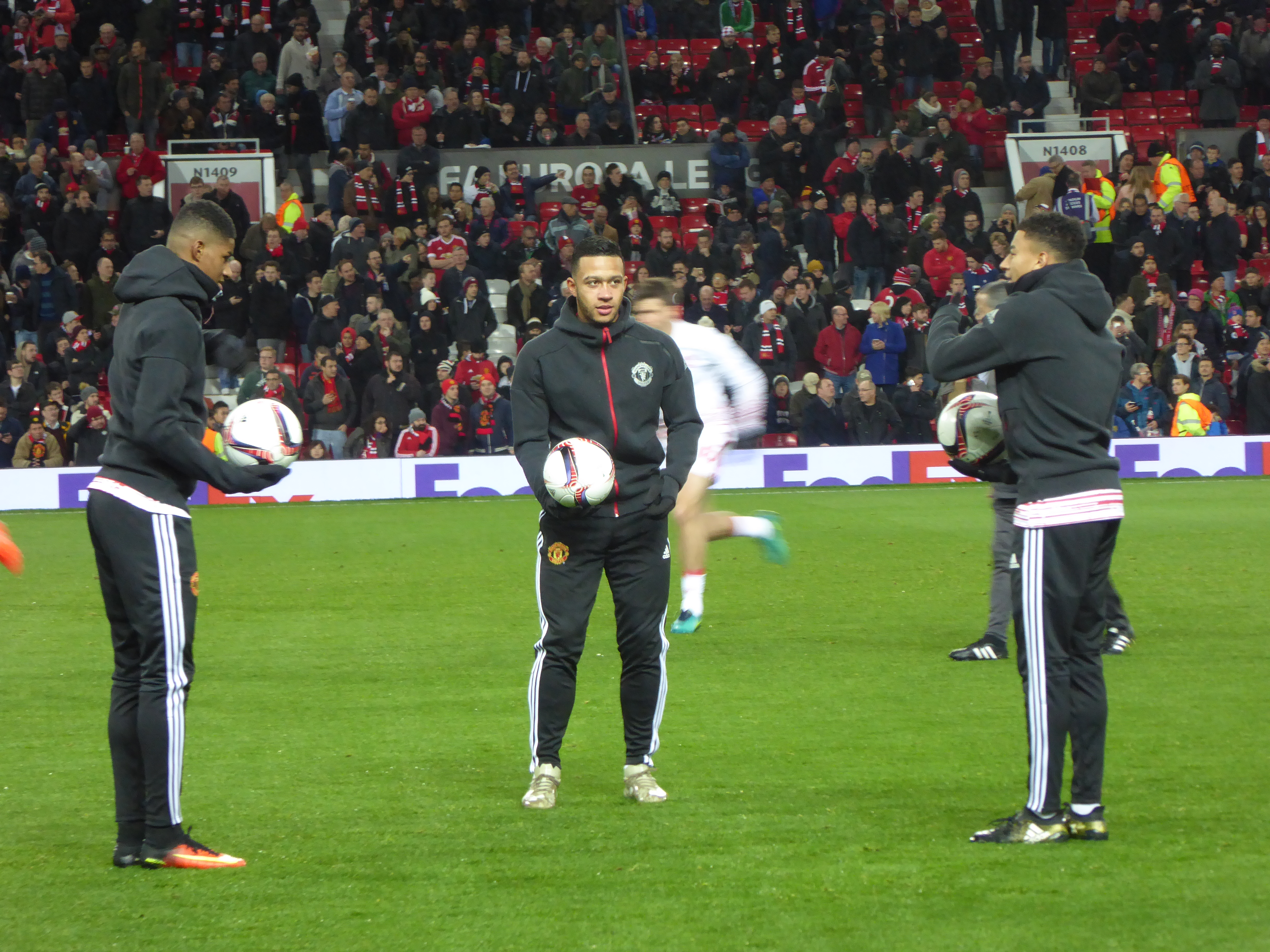 Manchester United v Feyenoord (4-0), Europa League, Old Trafford, Manchester, Greater Manchester, England, 24 November 2016